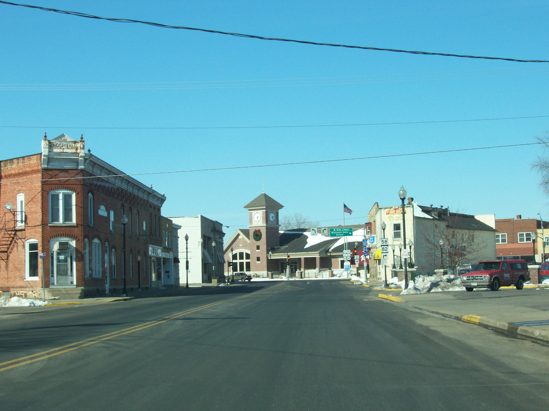 Looking north at Mauston, Wisconsin, USA while travelling on Wisconsin Highways 58 and 82. Taken March 11, 2007 by myself.